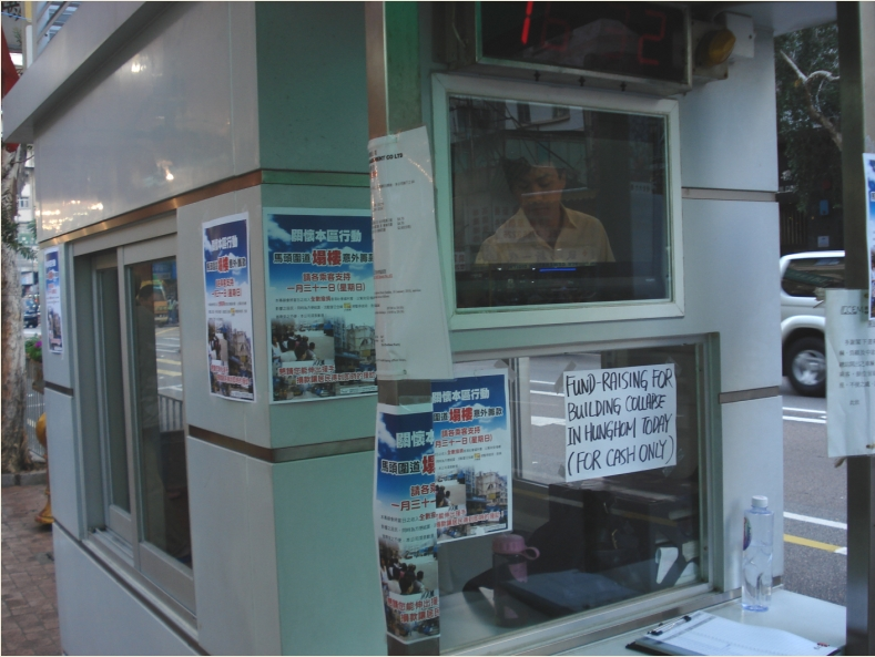 The photo was taken at a minibus stop along Tak Man Street at 4:32pm on 31 January 2010. The fund-raising campaign lasted one day when passengers of minibuses needed to pay cash and the cash would all be collected for the victims of the building collapse along Ma Tau Wai Road.